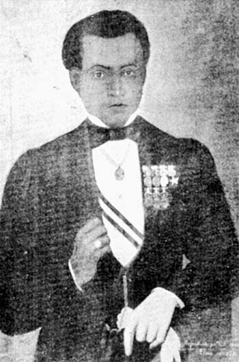 Portrait of Bernardo de Monteagudo (1789-1825), Argentine patriot. Painting by V. S. Noroña in 1876, from another painting made when Monteagudo was in Panama. Is the only real portrait of Monteagudo (see Lizondo, Estratón J. (1943). "Monteagudo, el pasionario de la libertad". Tucumán: La Raza.) Retrato de Bernardo de Monteagudo (1789-1825), patriota argentino. Cuadro del pintor V. S. Noroña realizado en 1876, tomado de otro cuadro realizado directamente de Monteagudo cuando estaba en Panama. Es el único retrato auténtico de Monteagudo (ver Lizondo, Estratón J. (1943). "Monteagudo, el pasionario de la libertad". Tucumán: La Raza.; ver también "El verdadero rostro de Monteagudo".